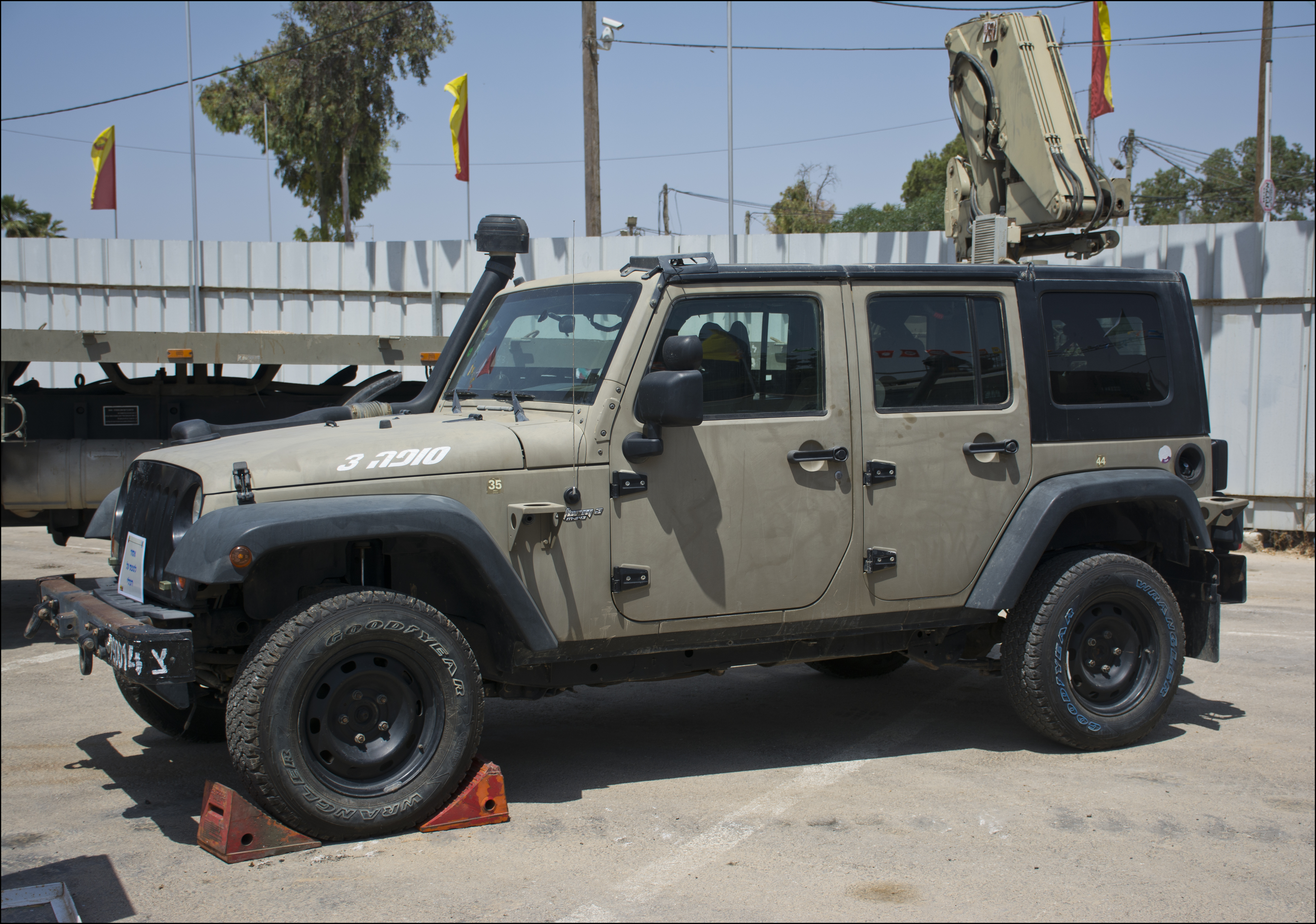 AIL Storm III - IDF "Sufa 3" all-terrain vehicle, Israel's 70th Independence Day